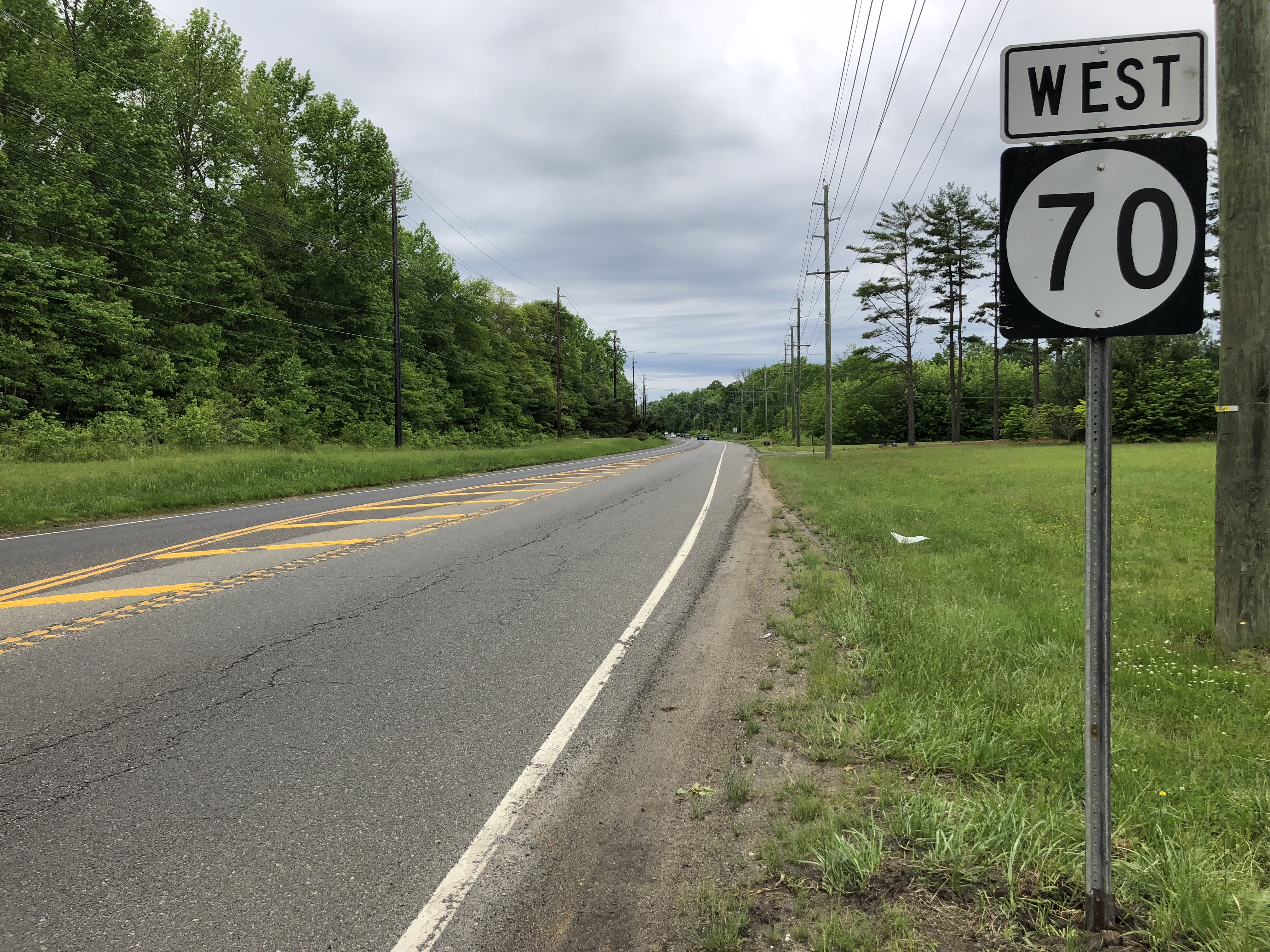 View west along New Jersey State Route 70 at Chairville Road and Skeet Road in Medford Township, Burlington County, New Jersey